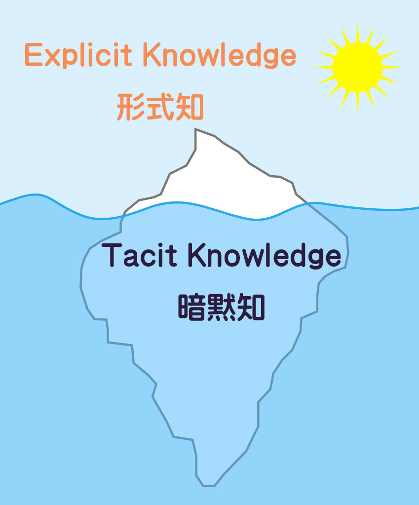 I made this file using which was provided as public domain.